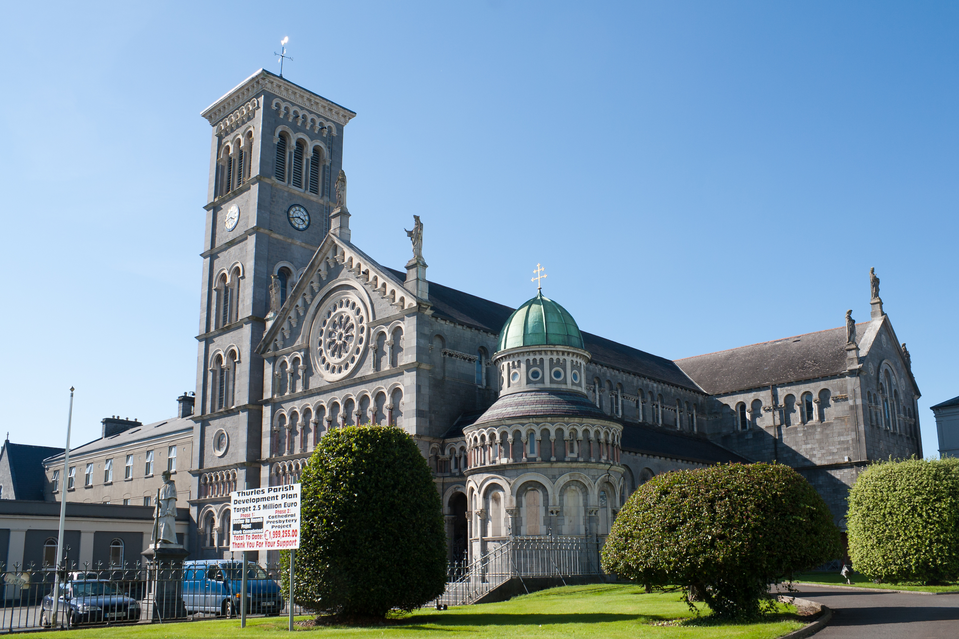 South-east view of the cathedral.